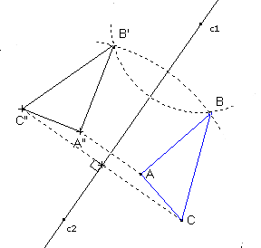 Mirror (axial) symmetry on the plane